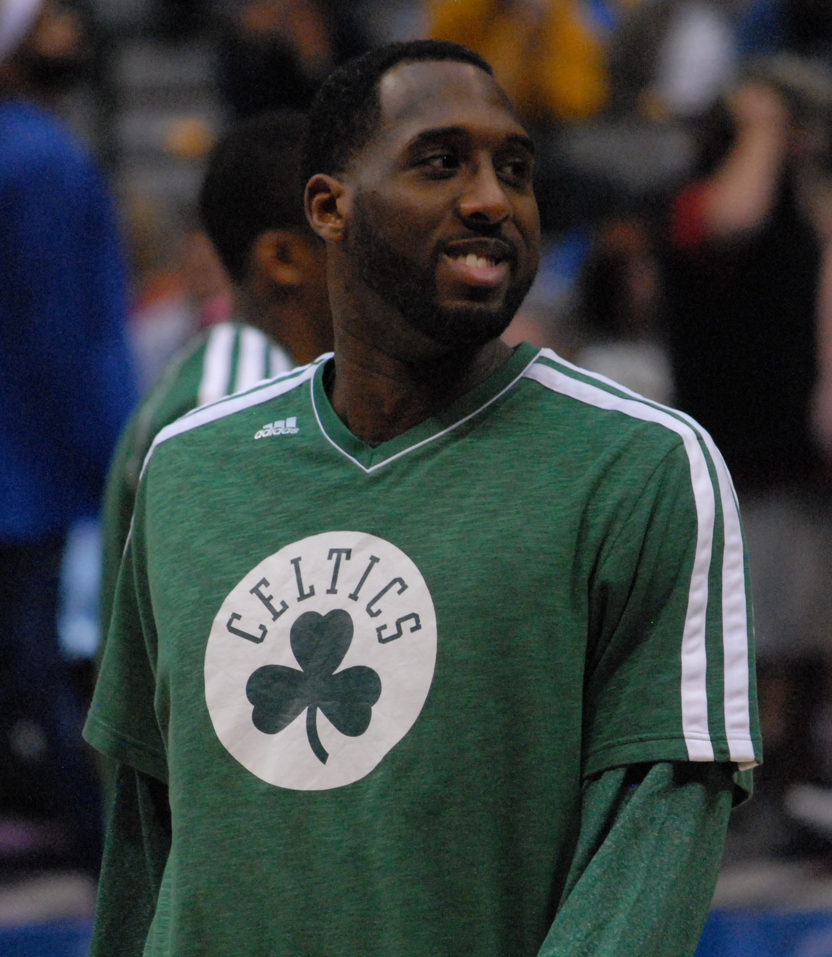 Dewayne "D. J." White, Jr. (born August 31, 1986) is an American professional basketball player.